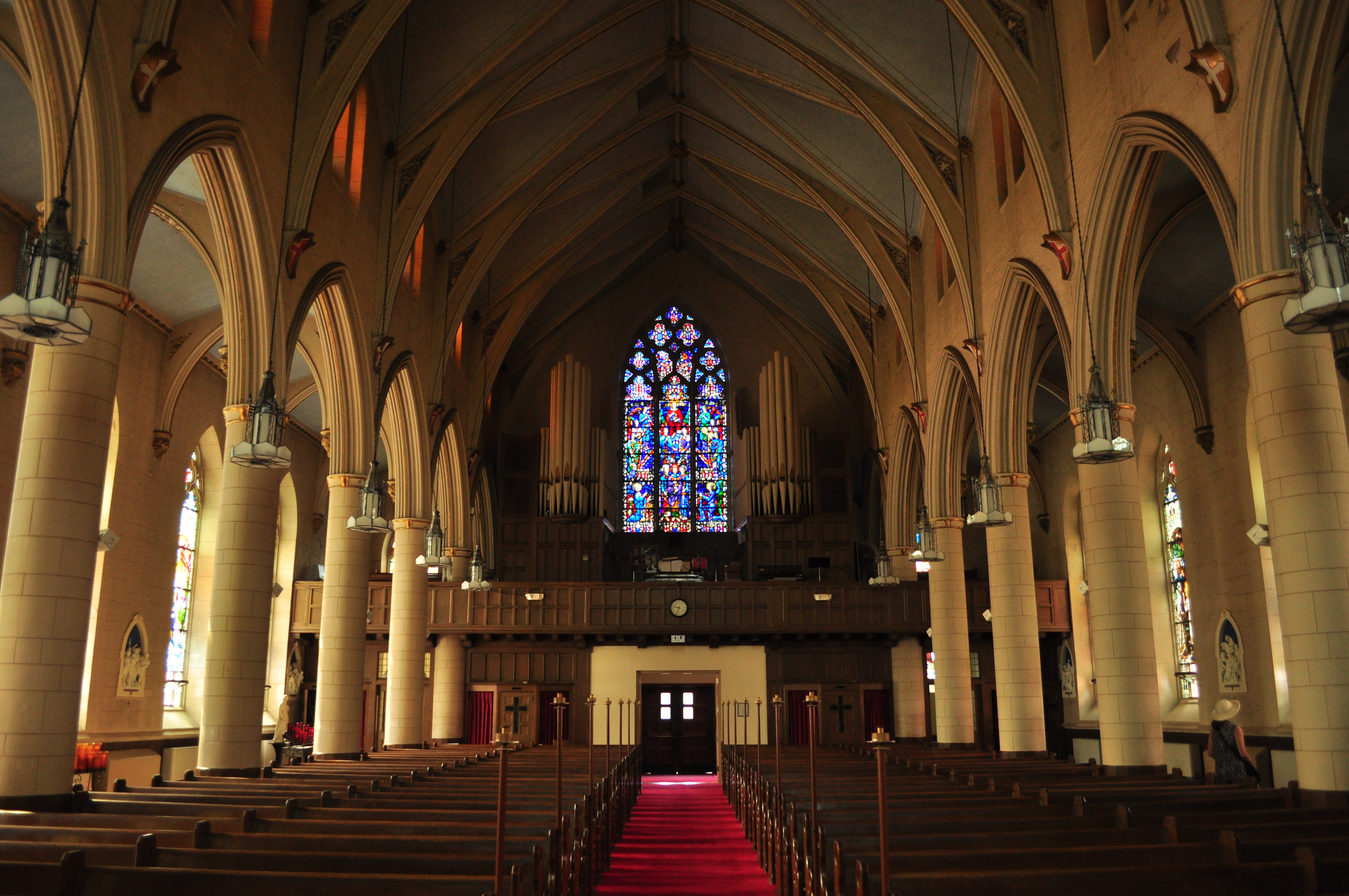 Interior, Saint John's Roman Catholic Church, 9 St. John's St., Middletown, Connecticut. The church is a contributing property of the Main Street Historic District, which is listed on the National Register of Historic Places.